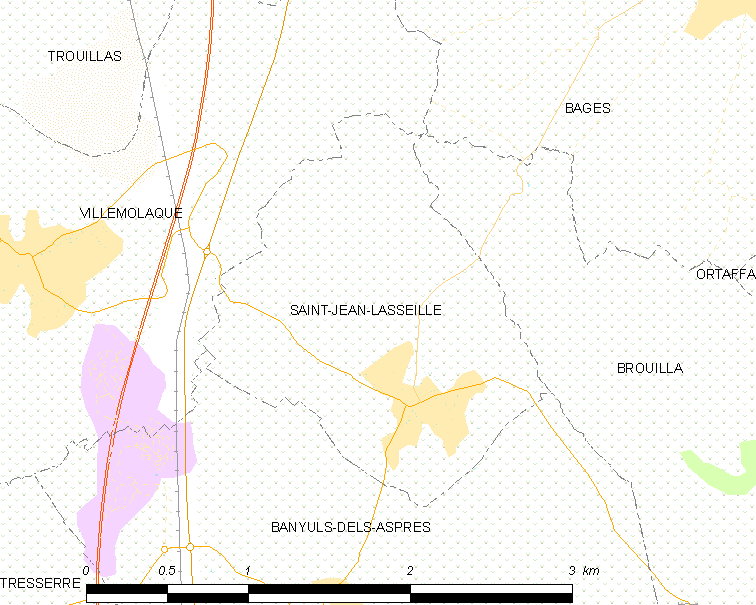 Map of French municipality